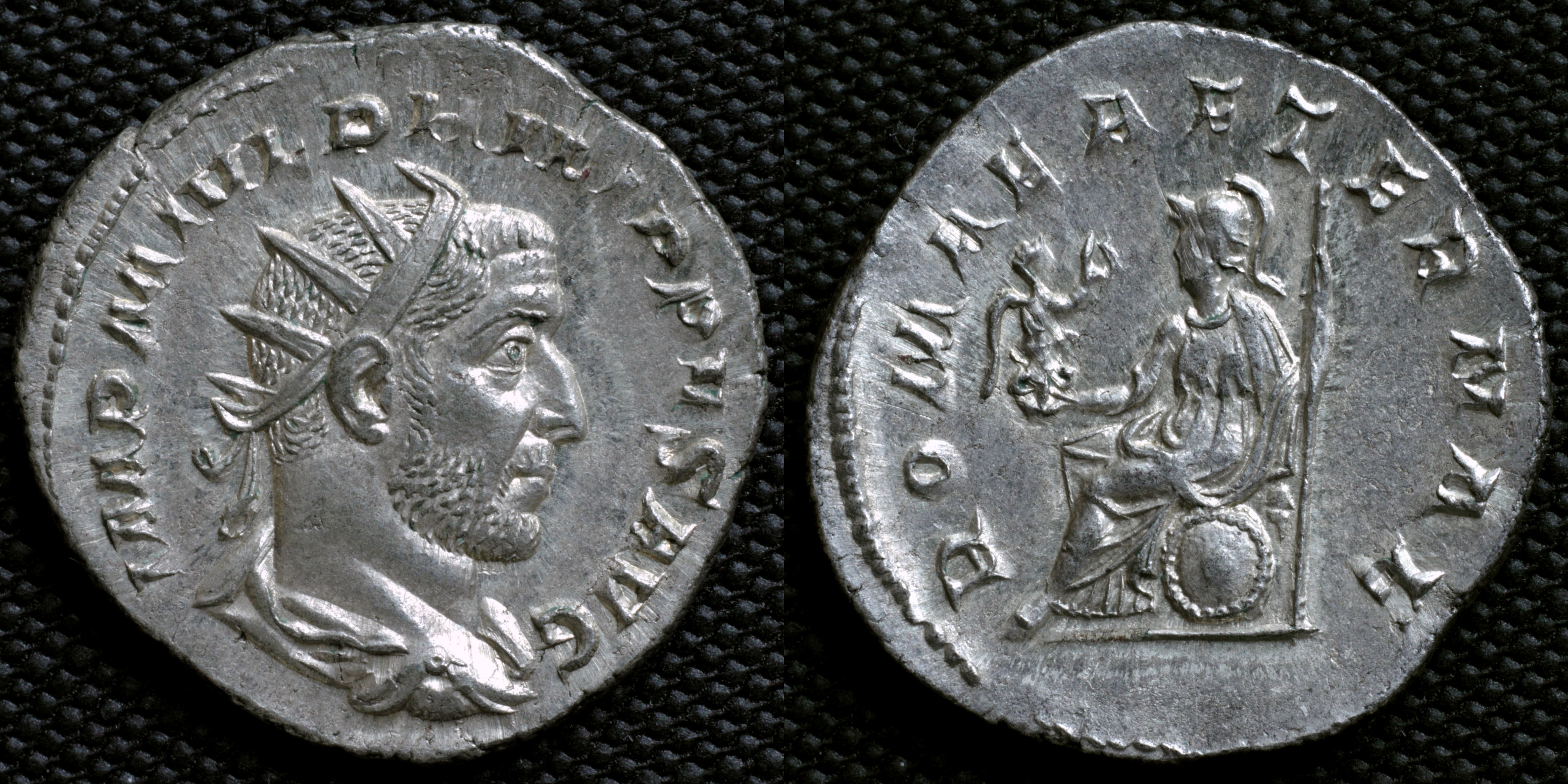 AR antoninianus of Philip the Arab struck in Rome 247 AD. obverse: radiate, draped and cuirassed bust right IMP M IVL PHILIPPVS AVG reverse: Roma seated left, holding Victory and scepter ROMAE AETERNAE references: RIC 44b, C 169 weight: 3,9 g diameter: 22-21 mm